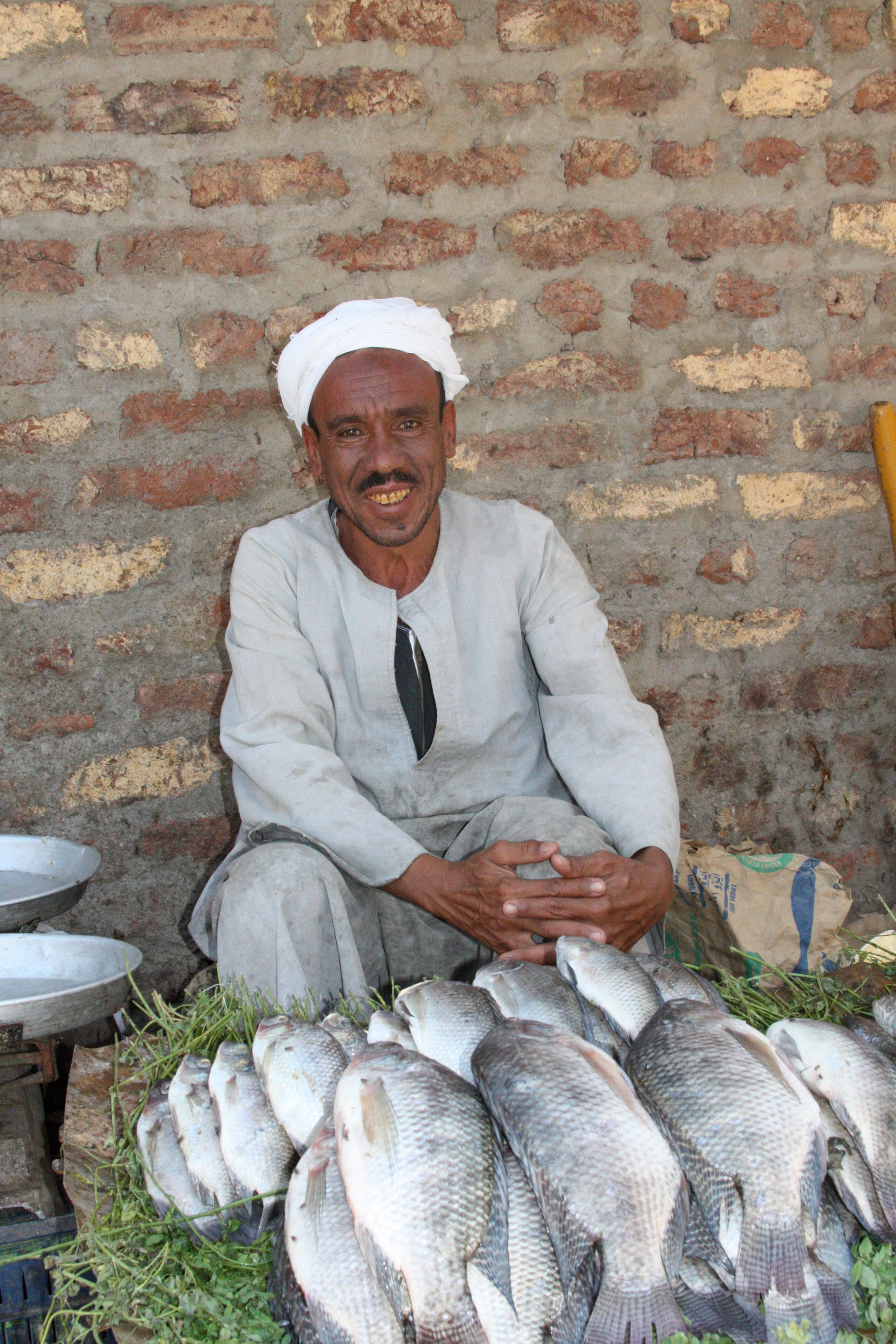 egyptian man selling fish